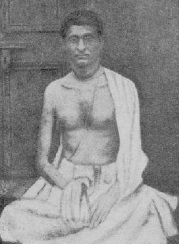 Bhaktisiddhanta Saraswati Thakur during his vrata in Mayapur, Bengal, ca. 1901-1910